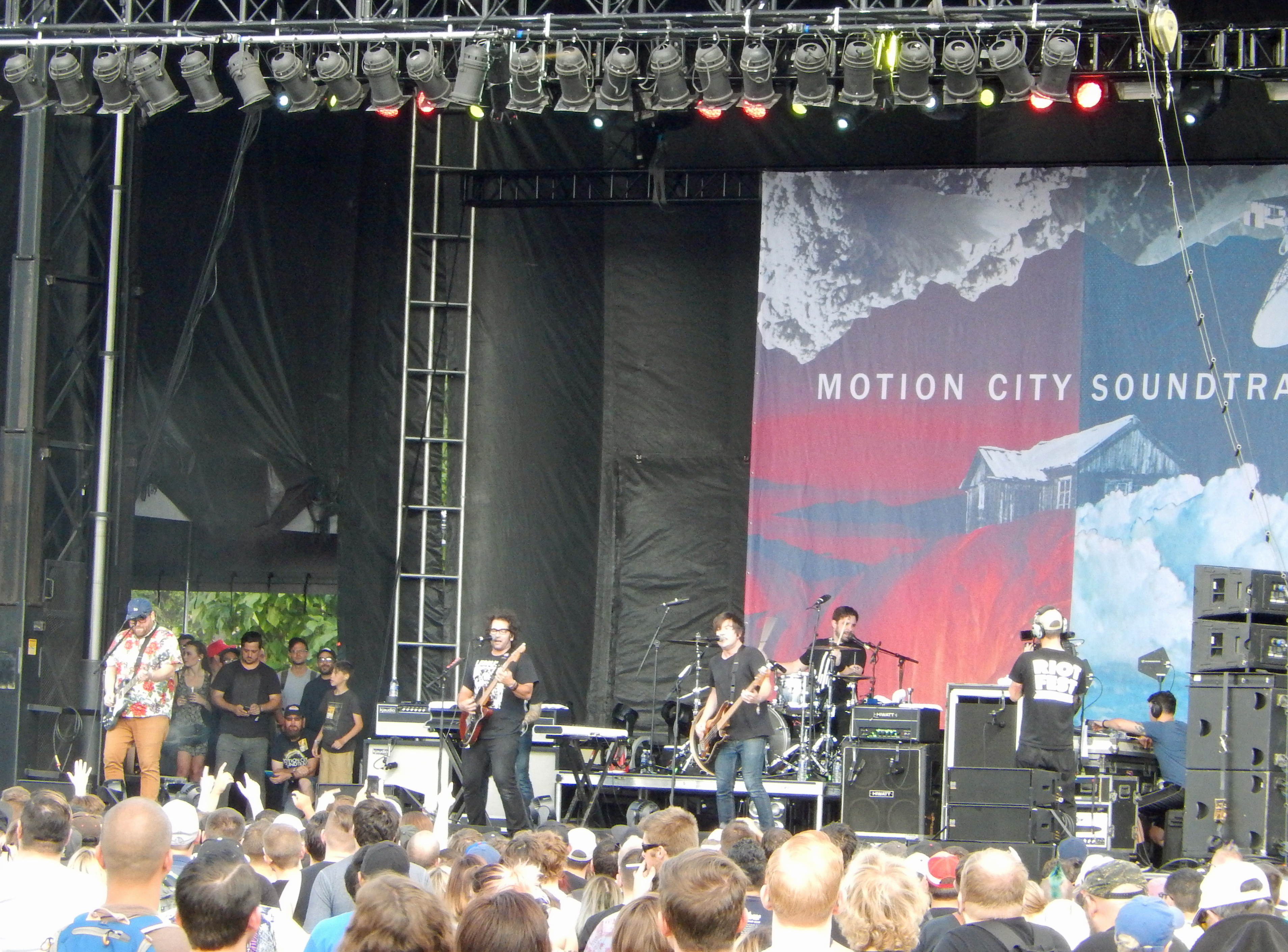 Motion City Soundtrack playing their second-to-last concert at Riot Fest in Chicago on September 16, 2016.